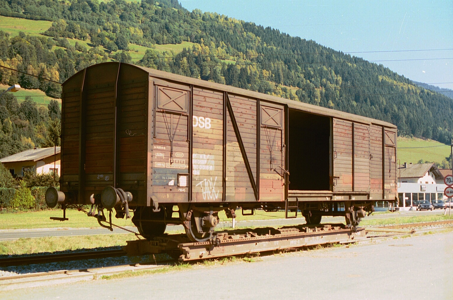 Danish standard gauge freight wagon on a narrow gauge transporter wagon. Picture taken at Burk halt on the Pinzgauer Lokalbahn, near Mittersill in Salzburger Land, Austria.